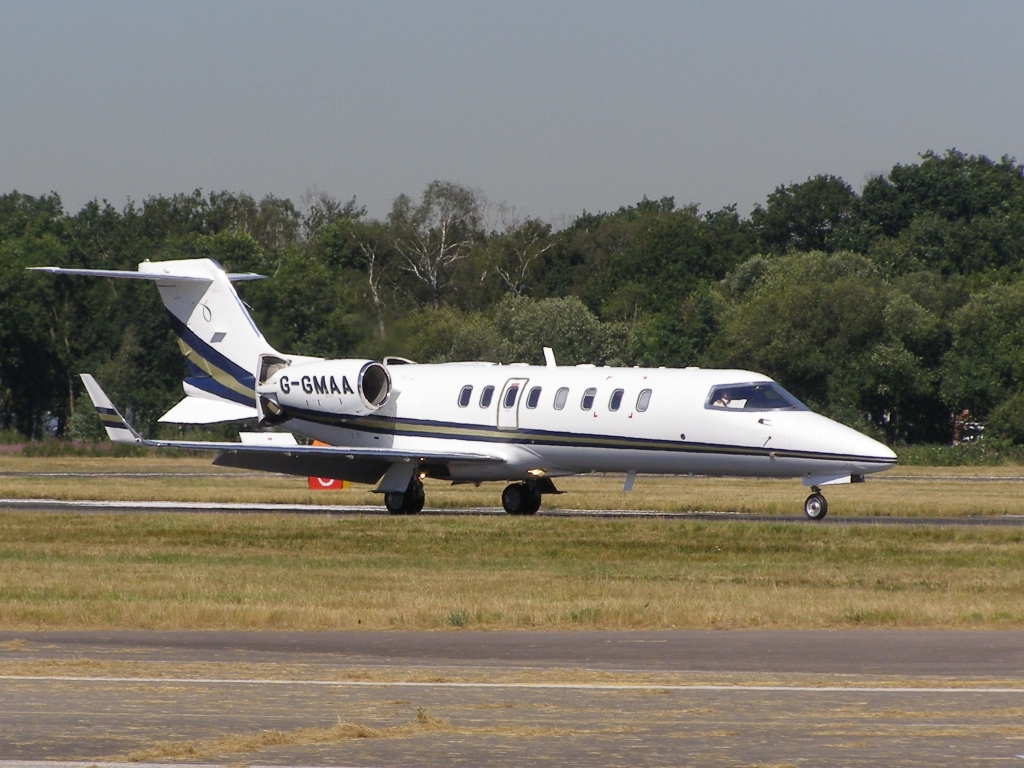 Learjet 45 of Gama Aviation (Registration G-GMAA) at Farnborough, England, United Kingdom.